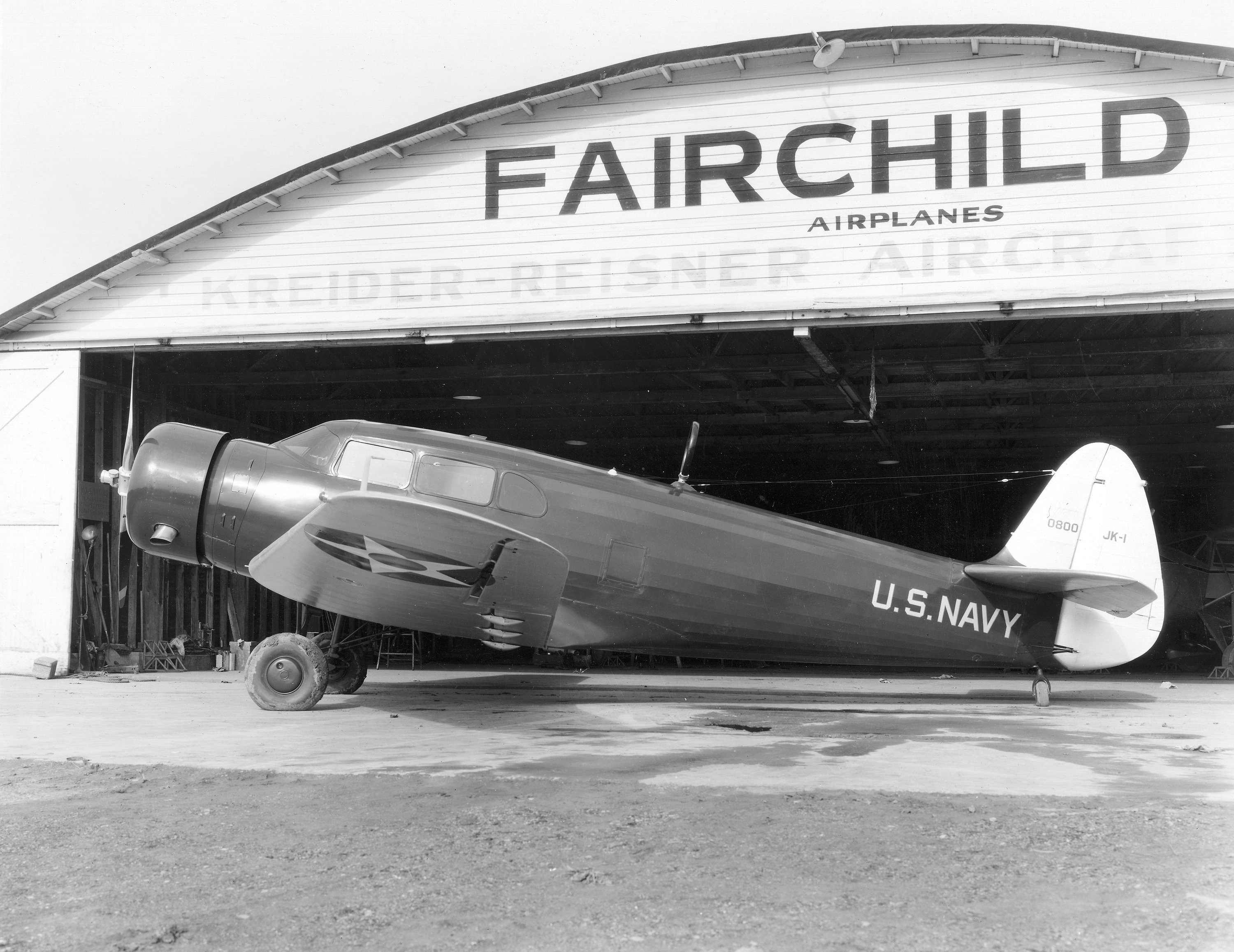 Left side view of US Navy Fairchild JK-1 (BuNo 0800) on the ground outside a Fairchild Airplanes hangar, circa 1937.